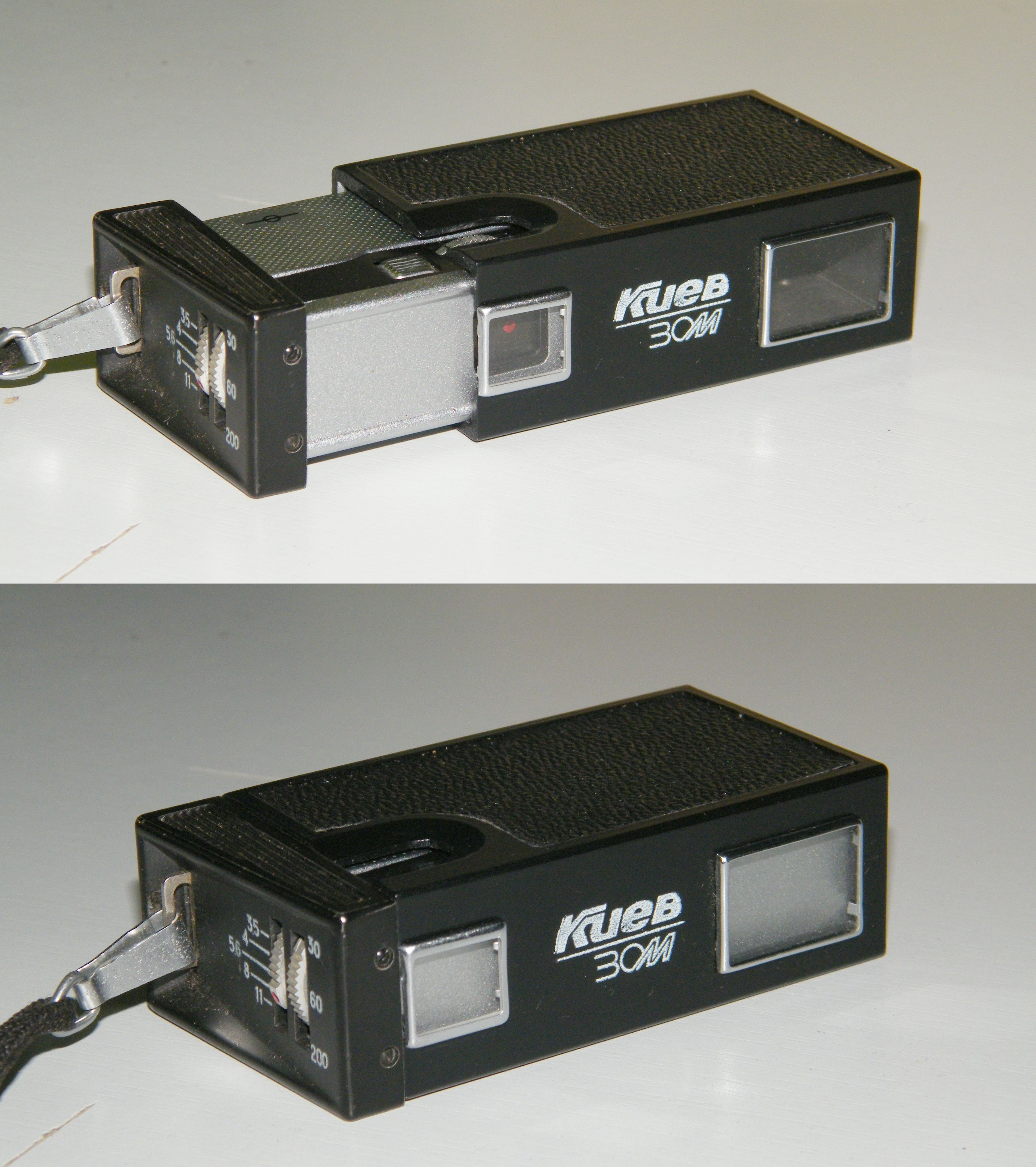 Фотоаппарат Киев-30М